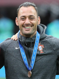 Portugal - Mexico, 2 Jul 2017